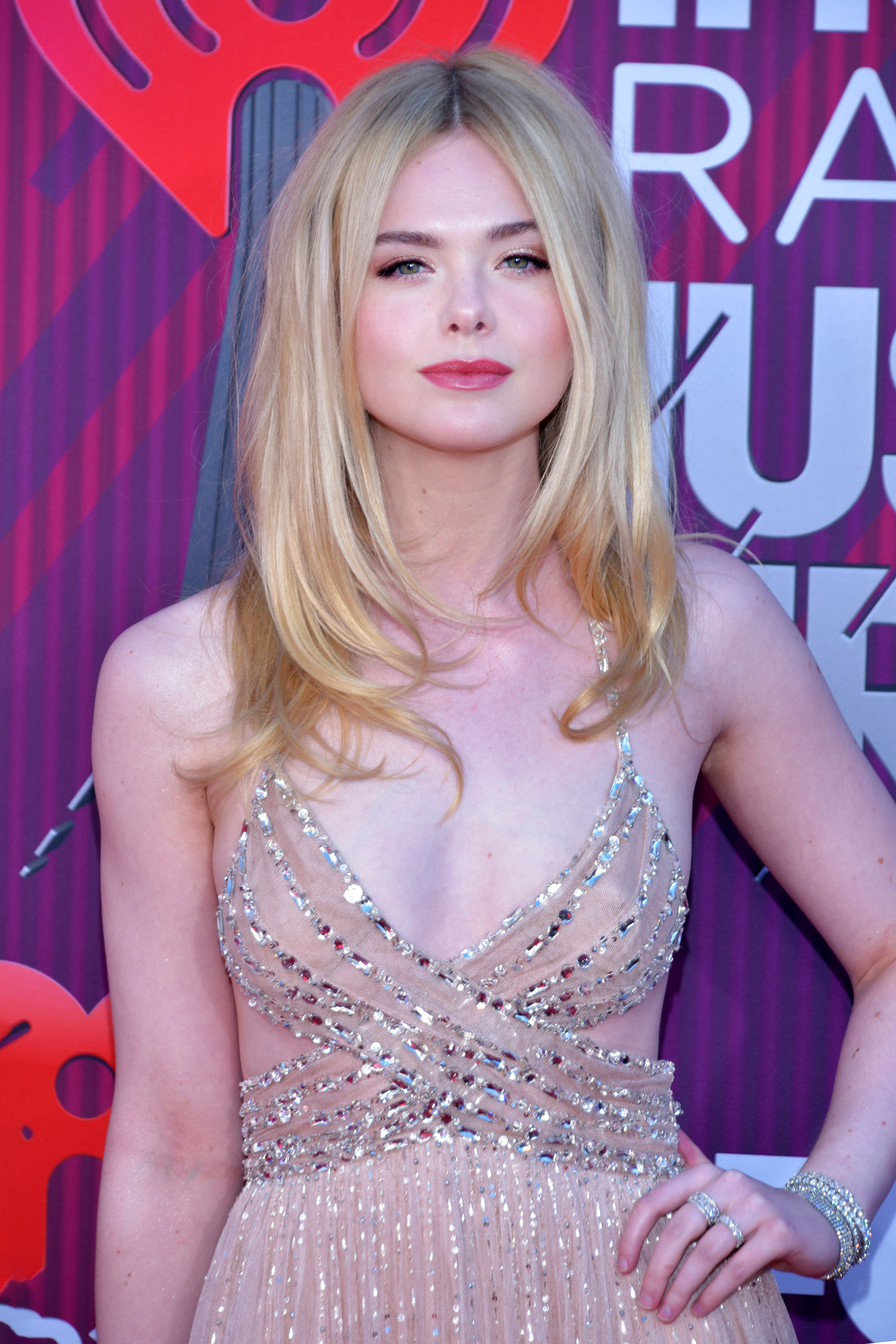 Elle Fanning at the iHeartRadio Music Awards in Los Angeles, California on March 14, 2019 - Photo by Glenn Francis of